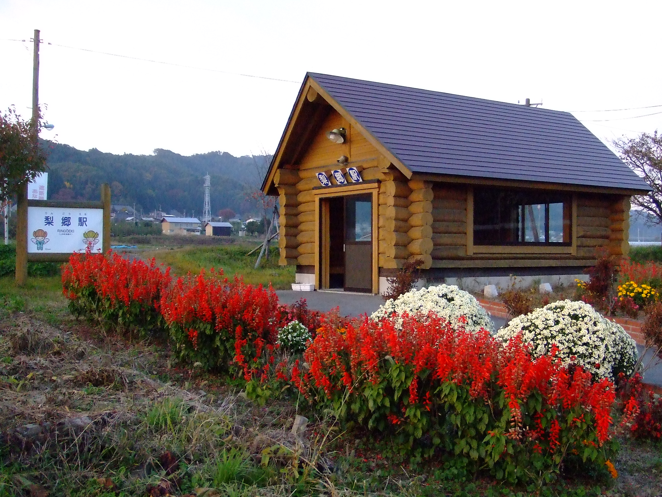 This is a photo of Ringo Station in Yamagata Prefecture, Japan. I took this photo with a digital camera on 31st October 2006.